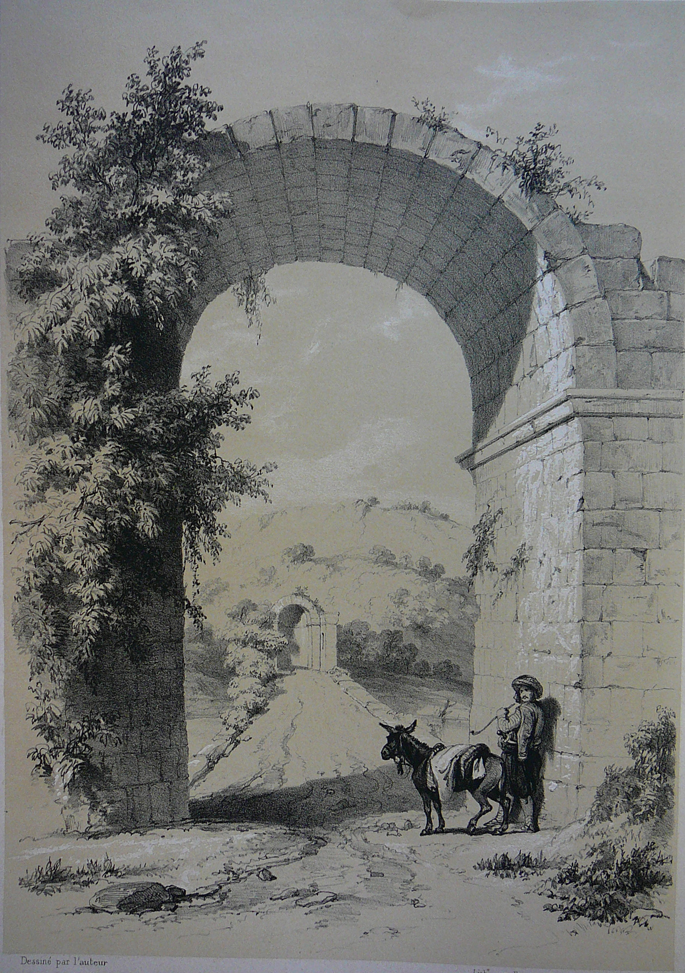 View from the west across the late Roman Sangarius Bridge, Turkey, according to a drawing from 1838. The just under 430 m long structure was constructed between ca. 559–562 by the Roman emperor Justinian at the site of a pontoon bridge. The triumphal arch in the foreground has disappeared today.